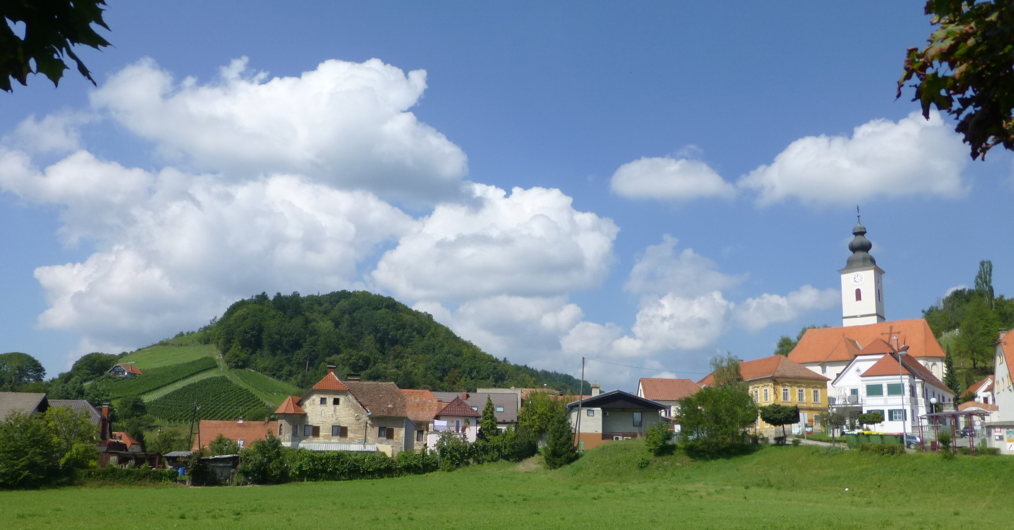 The village of Kamnica, Drava valley, near Maribor. Note the vineyards on the hill. Pohorje region.